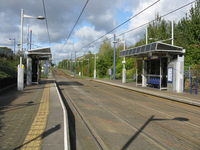 Priestfield Midland Metro tram stop